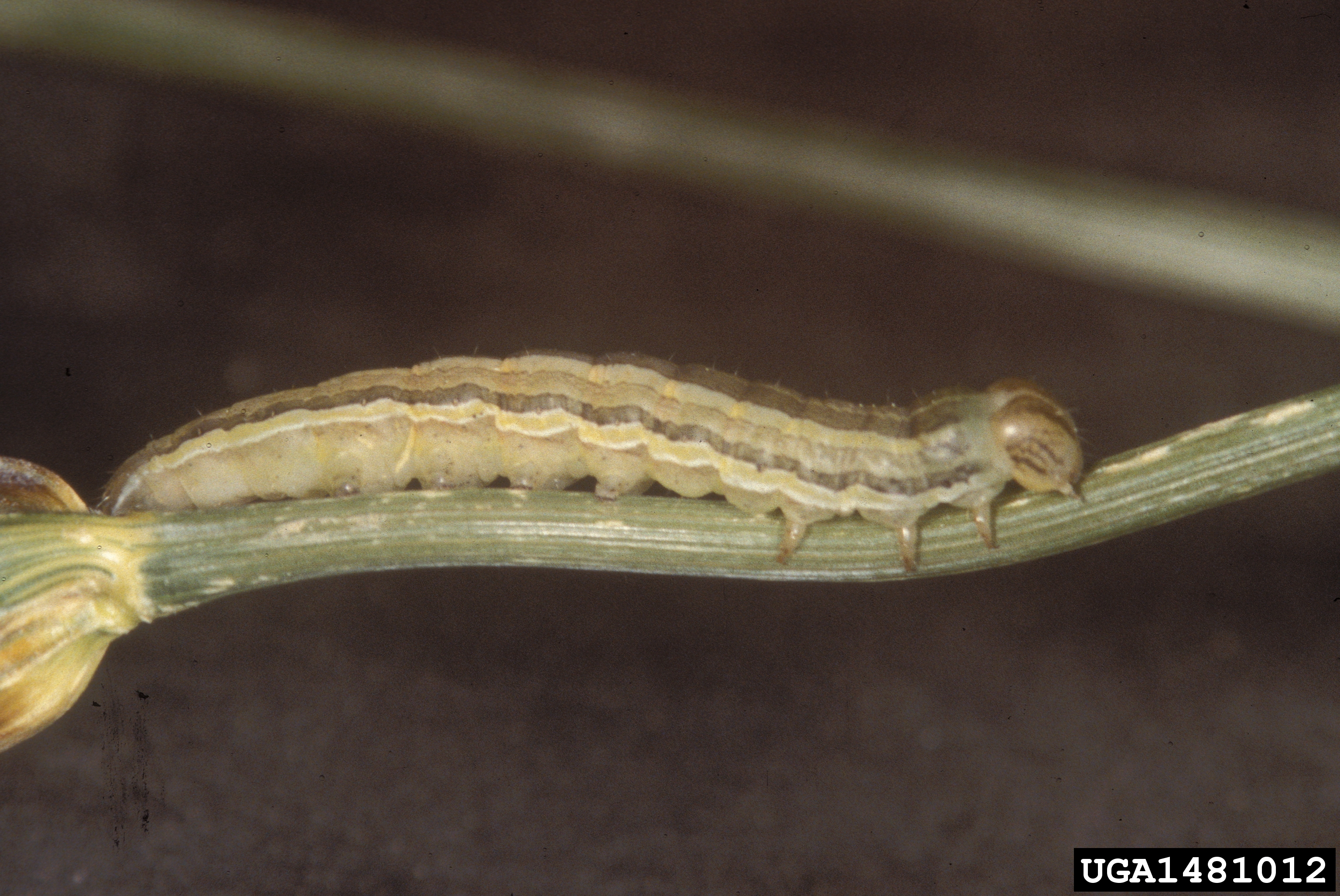 Faronta diffusa (wheat head armyworm) larva